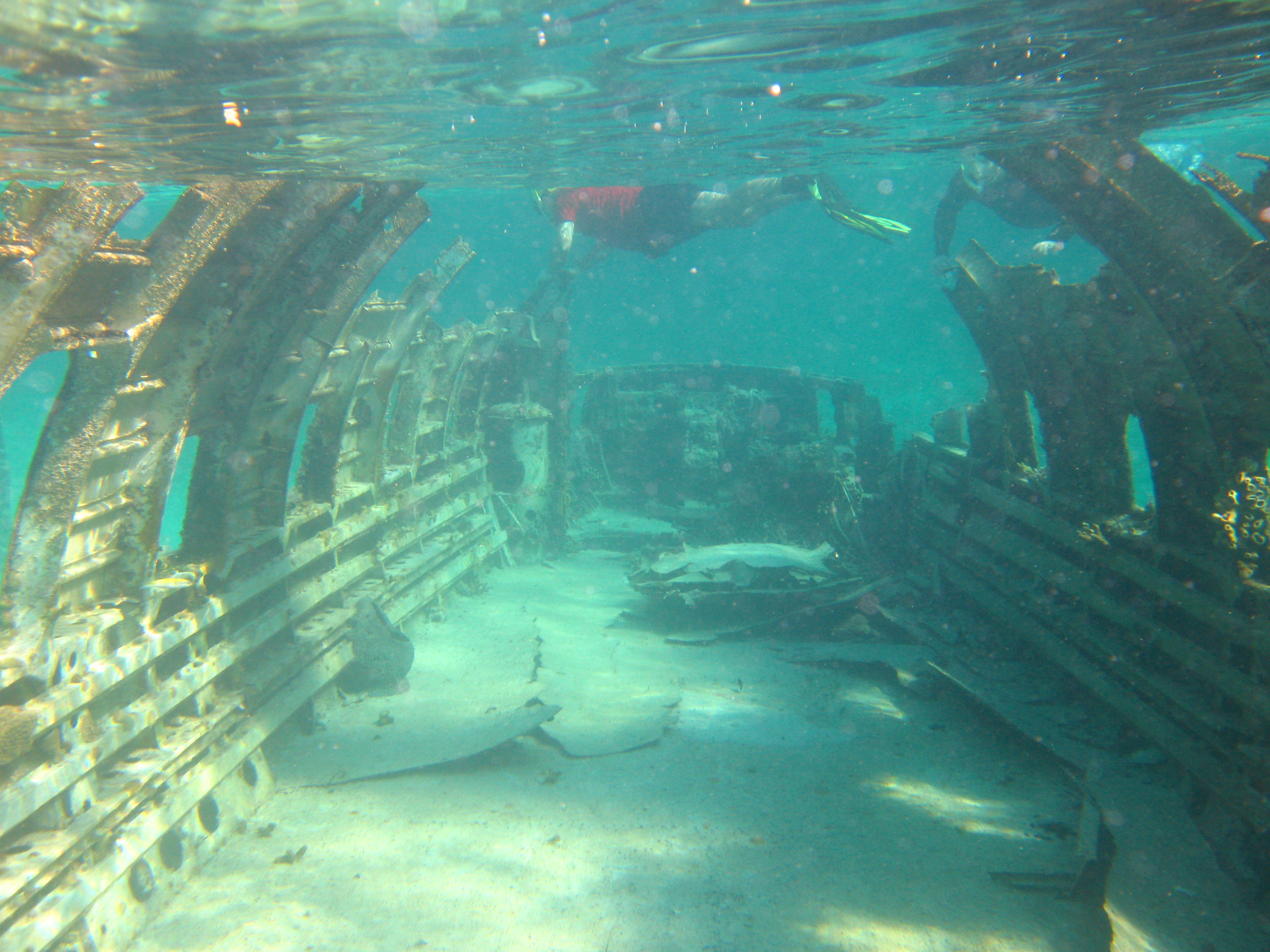 Inside view of the Carlos Leder airplane wreck